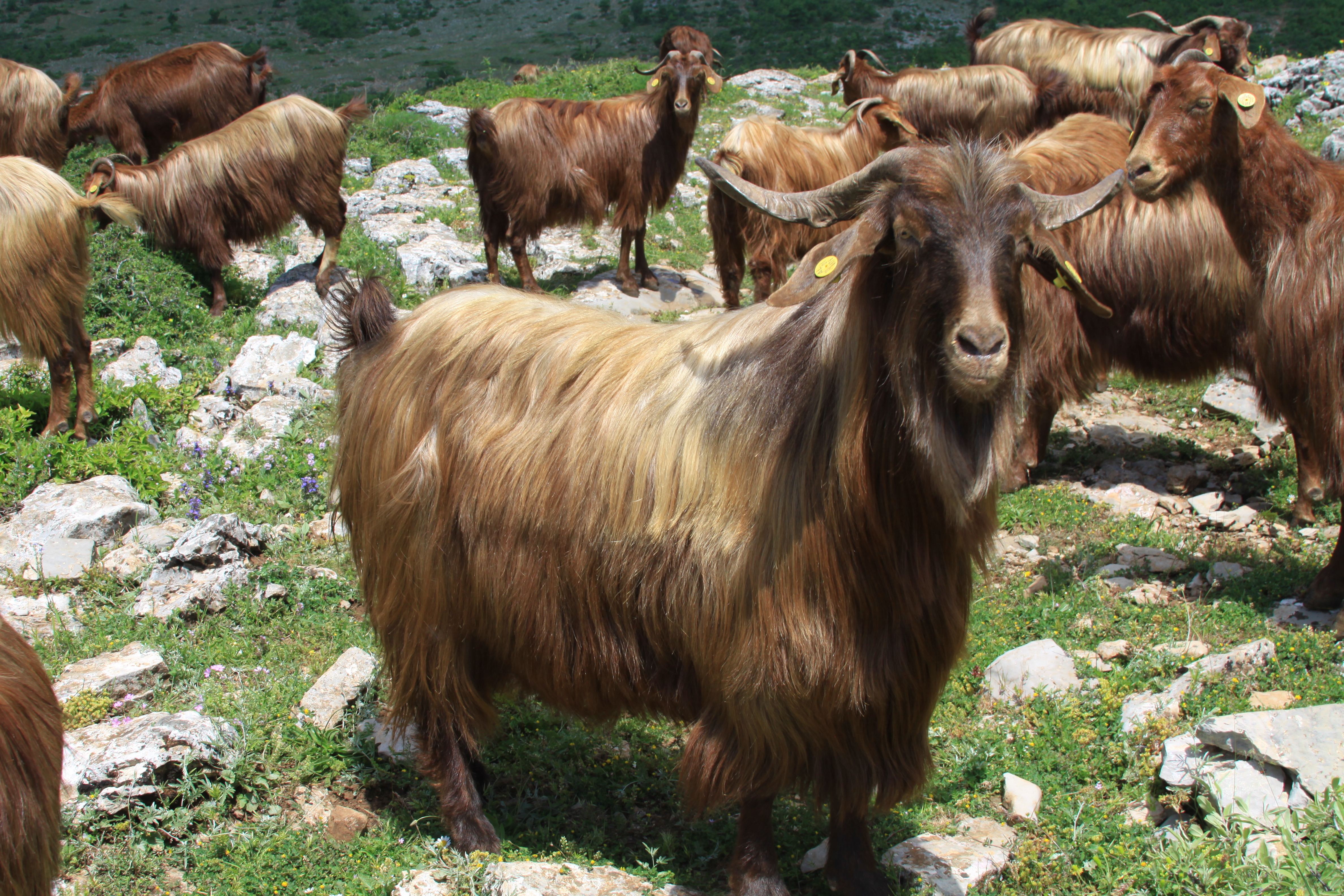 Dhia e Hasit Kukes